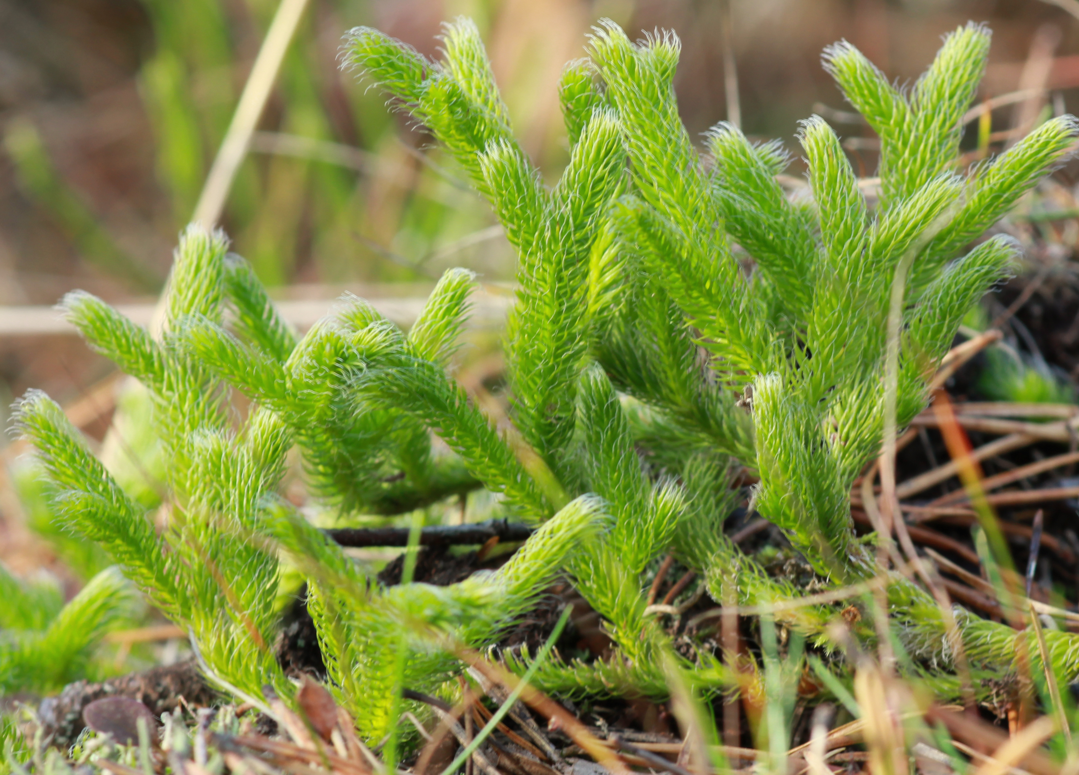 Wolf's-foot clubmoss (Lycopodium clavatum)